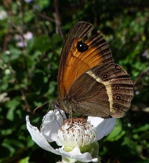 Neat Montsonís (Catalonia).